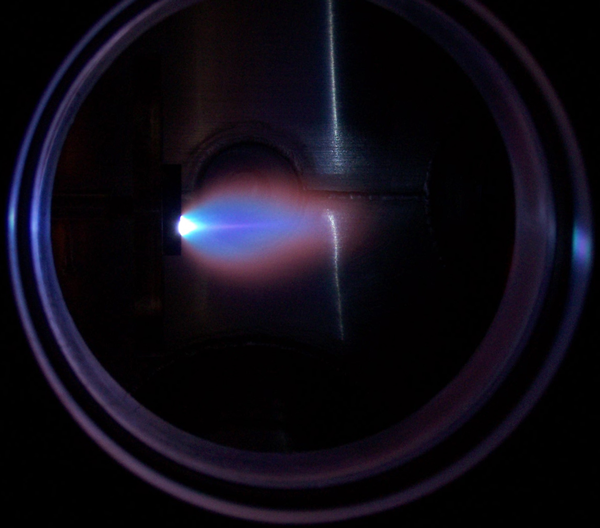 A plume ejected from SrRuO3 during a typical PLD process.